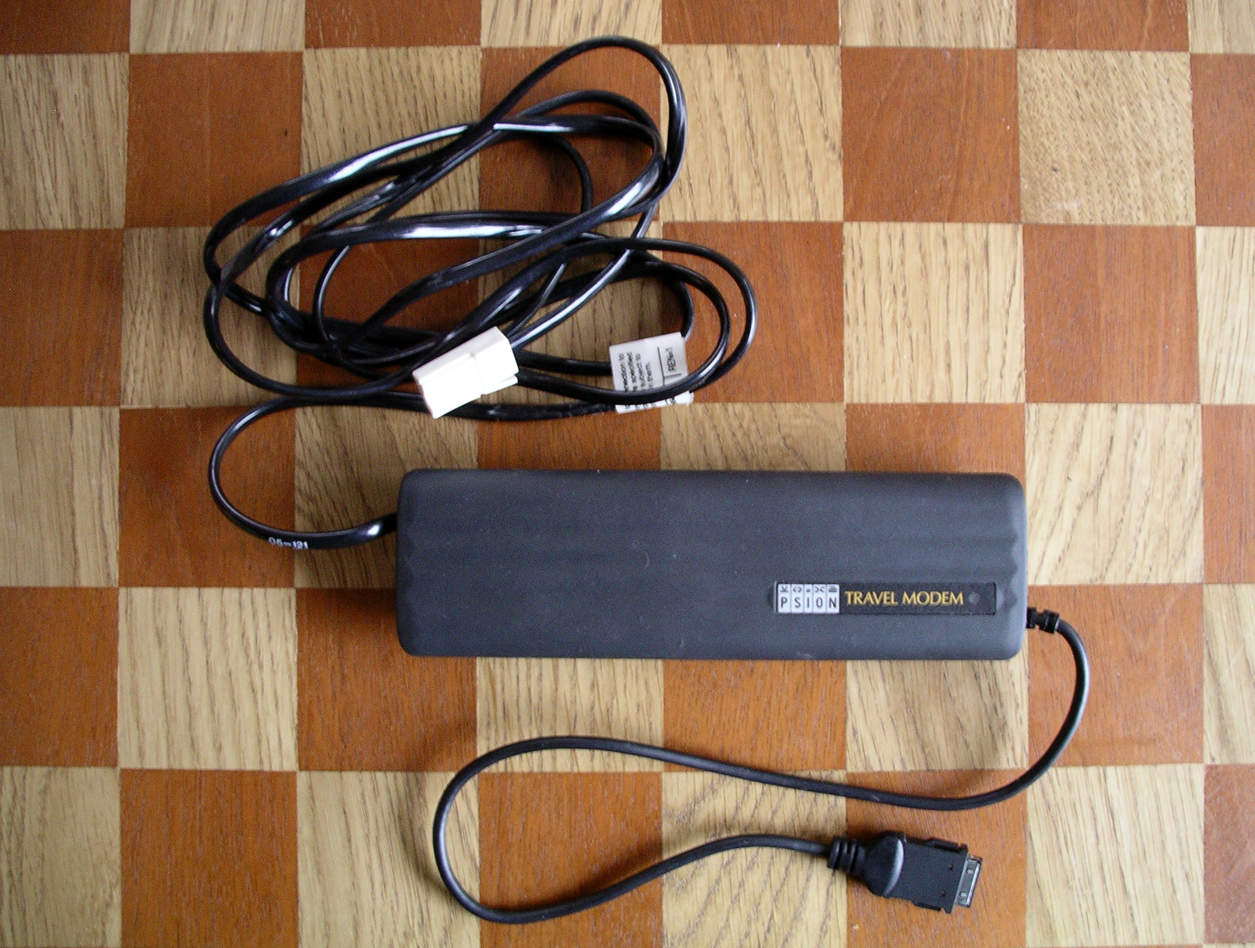 Photo of a Psion Travel Modem taken on 22 October 2006. The background is 5cm squares.